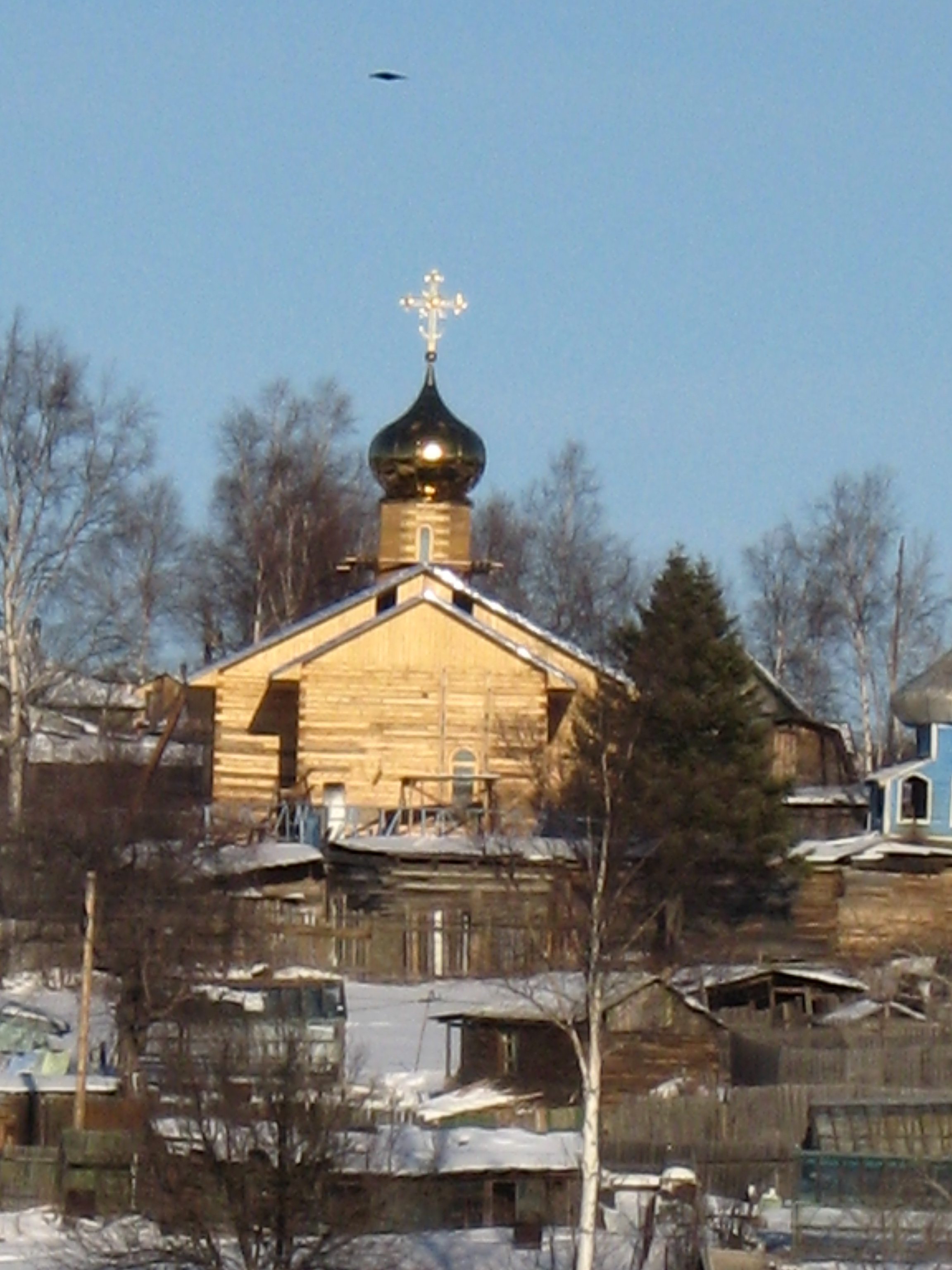 The Sity of Sovetskaya Gavan. Orthodox's church